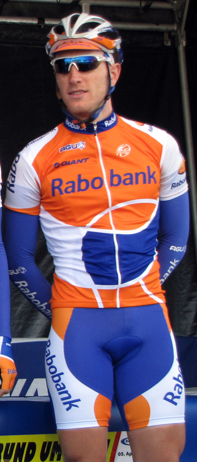 Jos van Emden